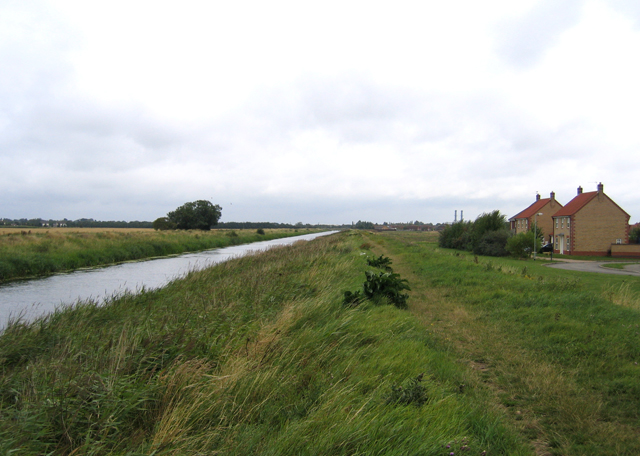 Vernatt's Drain, Spalding, Lincs. – view NE with Sorrel Drive below its bank.